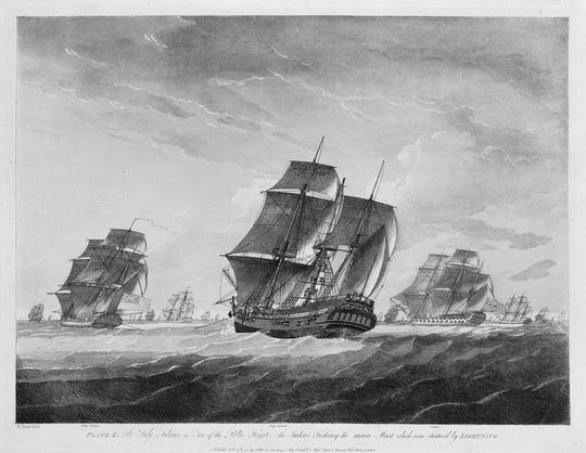 The Lady Juliana in tow of the Pallas Frigate. The Sailors Fishing the main Mast which was shatter'd by Lightning